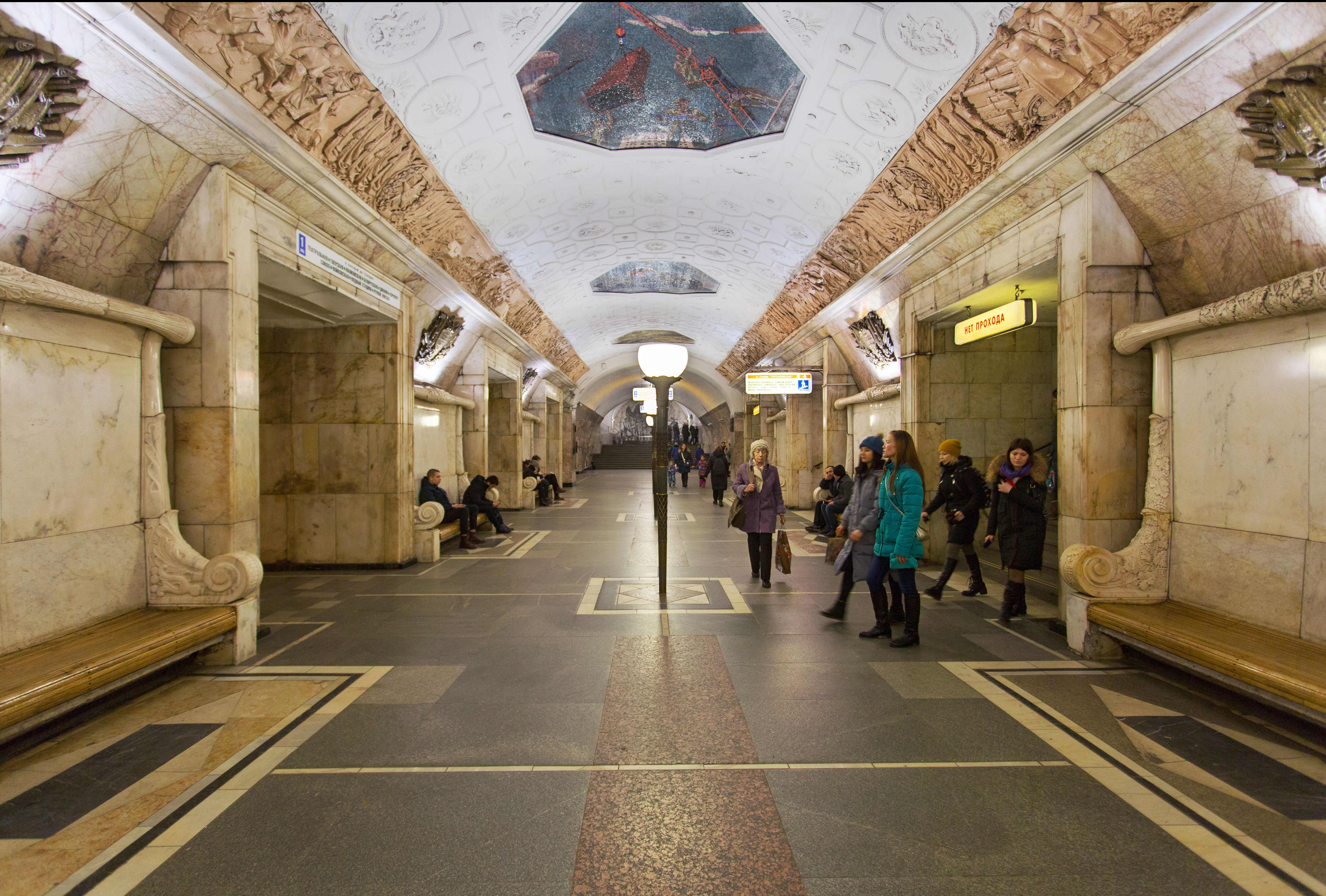 Novokuznetskaya metro station, Moscow, Russia